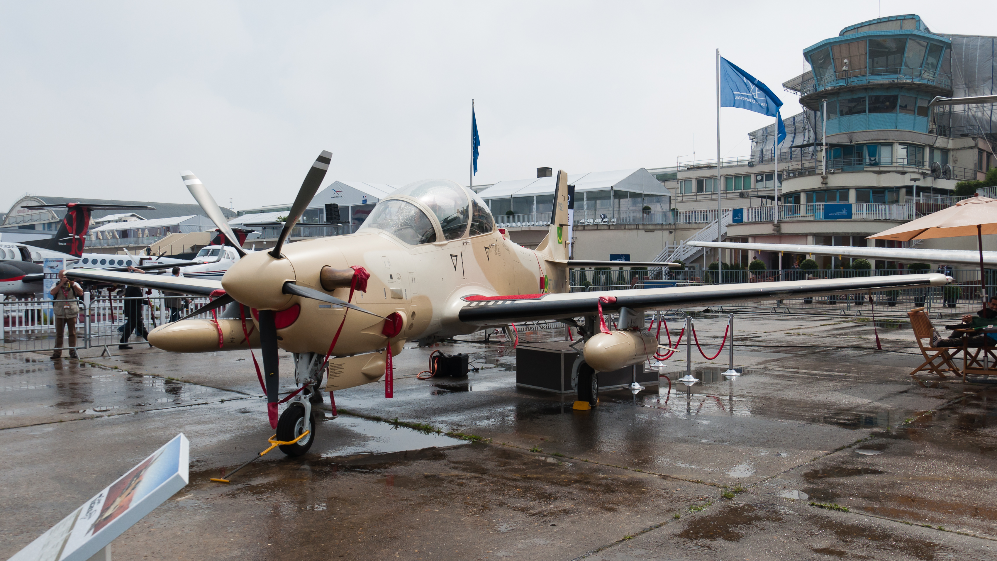 Mauritania Air Force Embraer A-29B Super Tucano (reg. 5T-MAW, c/n 192) at Paris Air Show 2013.